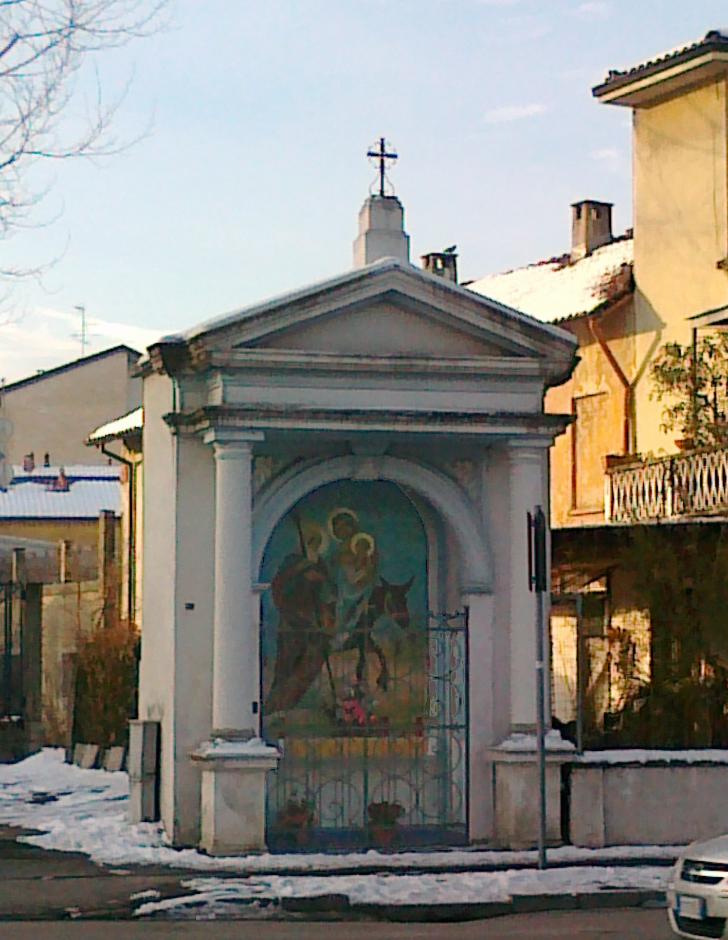 Chapel of Holy Family escaping in Egypt , in Ponte Lambro (Milan)